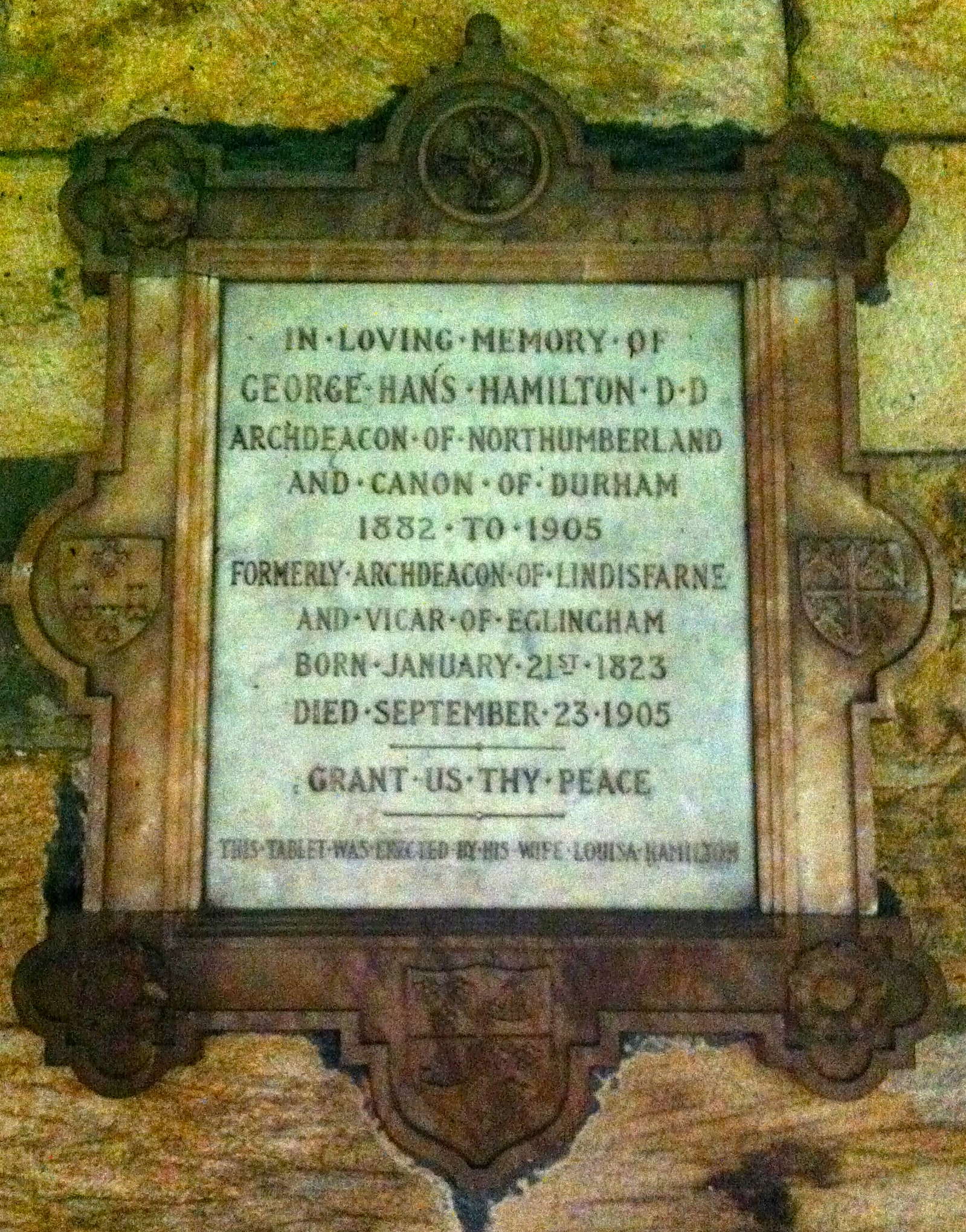 Memorial to George Hans Hamilton (21 Jan 1823 - 23 Sept 1905), Archdeacon of Northumberland and Canon of Durham (1882 - 1905)